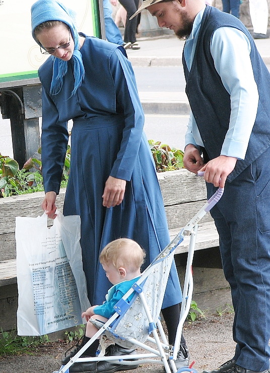 This is my own work, Gila Brand. Photo of Amish family visiting Niagara Falls, Canada